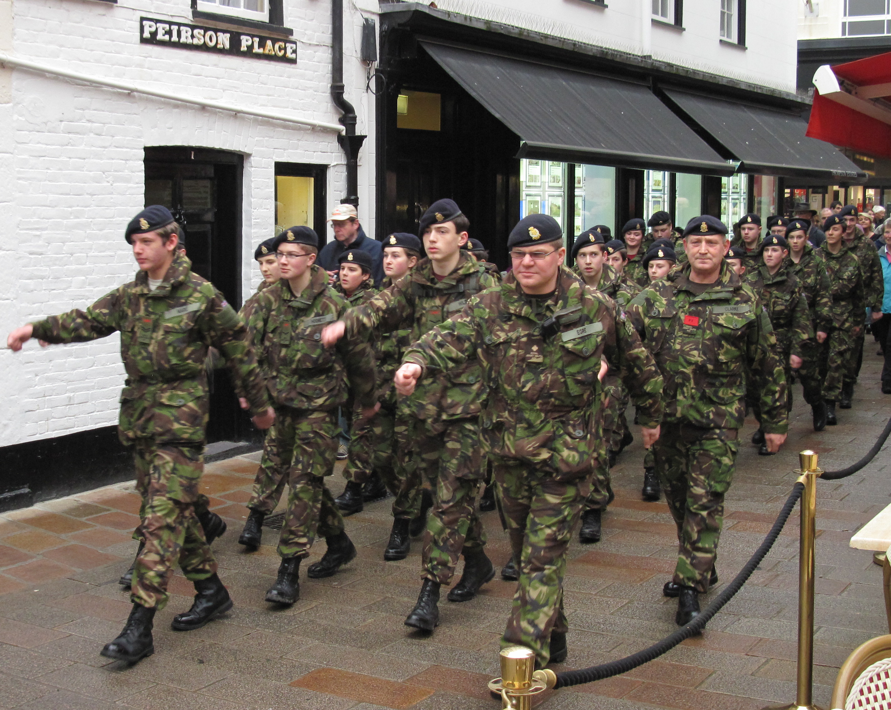 Battle of Jersey commemoration 2013 in the Royal Square, Saint Helier